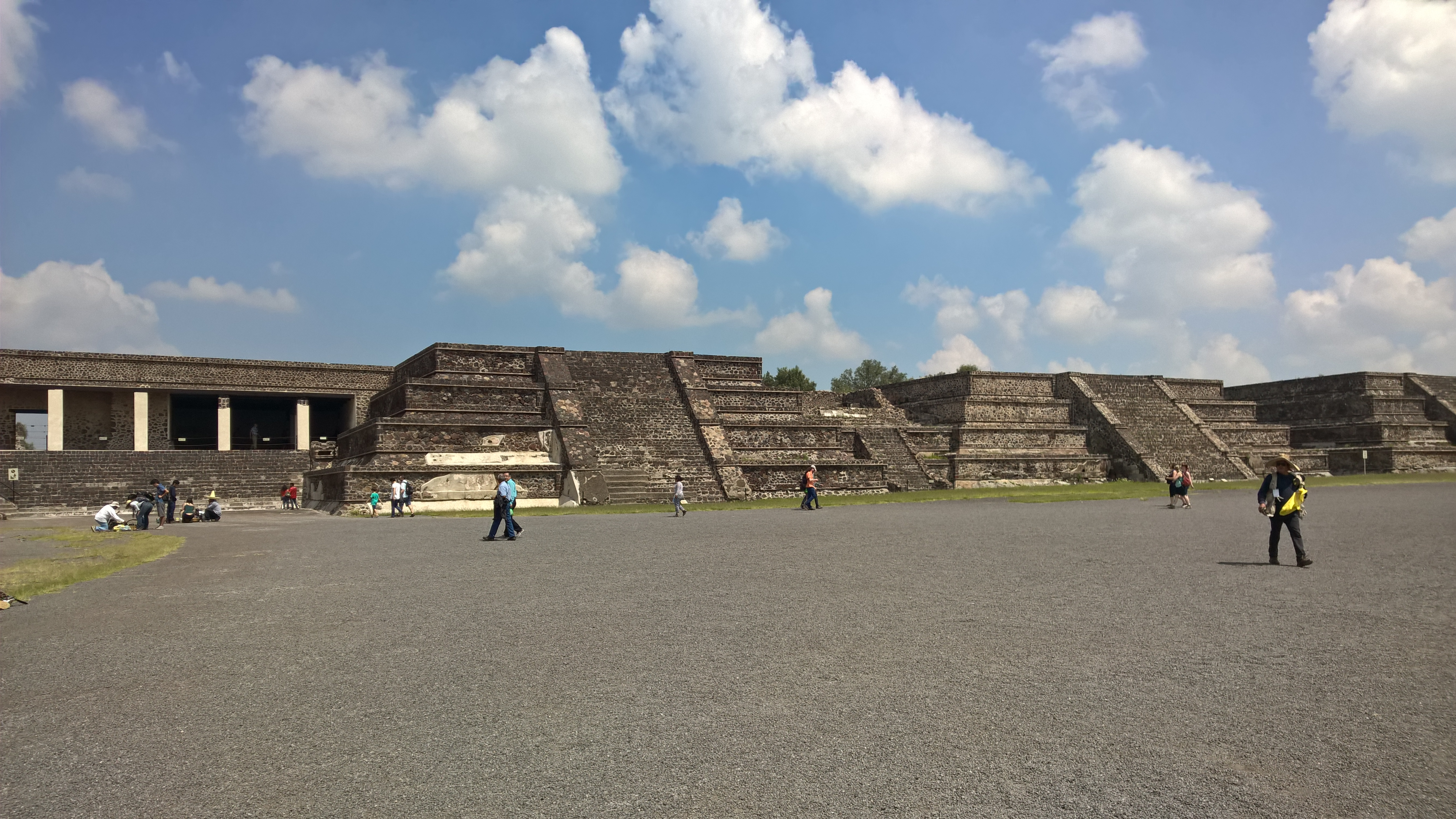 Teotihuacan